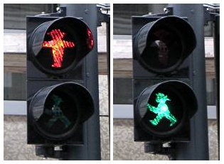 English